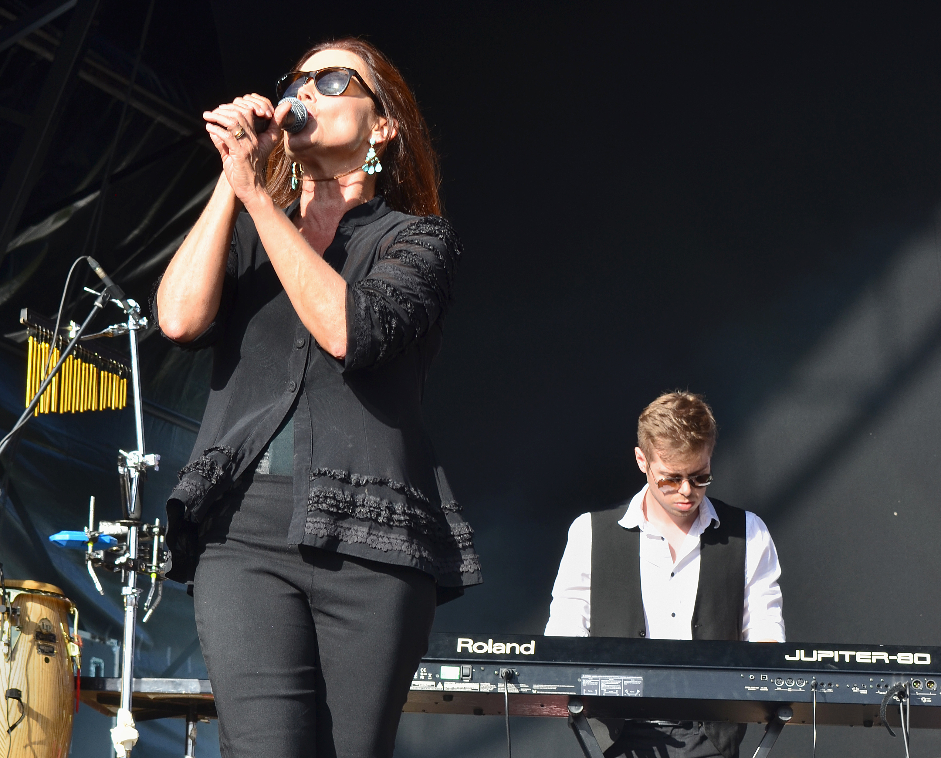 Let's Rock Bristol took place at The Ashton Court Estate, Bristol, 6-8 June 2014. It was attended by over 10,000 people. The festival included the following (mainly British) artists: Then Jerico, Brother Beyond, Bananarama, Tony Hadley, Belinda Carlisle, Alexander O'Neil, Go West, Boney M, Midge Ure, Heaven 17, The Christians, China Crisis, Doctor and The Medics, Sonia, Jaki Graham, Carol Decker of T'Pau, Level 42, Rick Astley, Kim Wilde, ABC, Nik Kershaw, Matt Bianco, Imagination, The Blow Monkeys, Toyah and Johnny Hates Jazz.